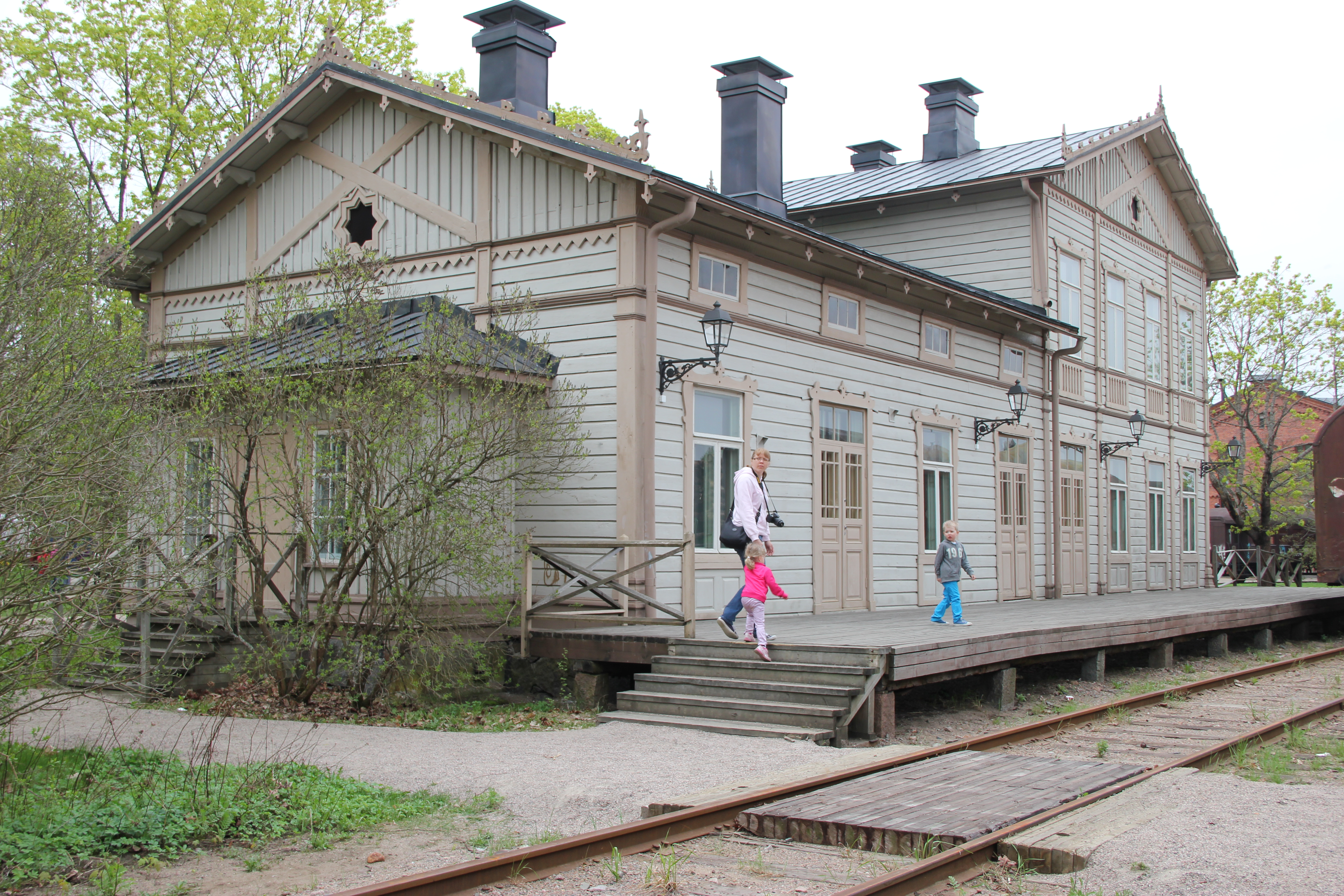 Old Hyvinkää railway station (Hanko-Hyvinkää railway) in the Railway Museum of Finland in Hyvinkää, Finland (front)